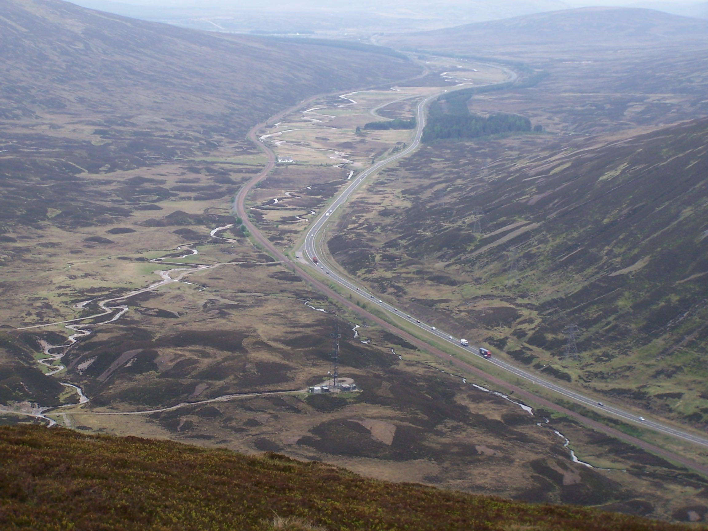 Aerial view of the Pass of Drumochter from the Boar of Badenoch